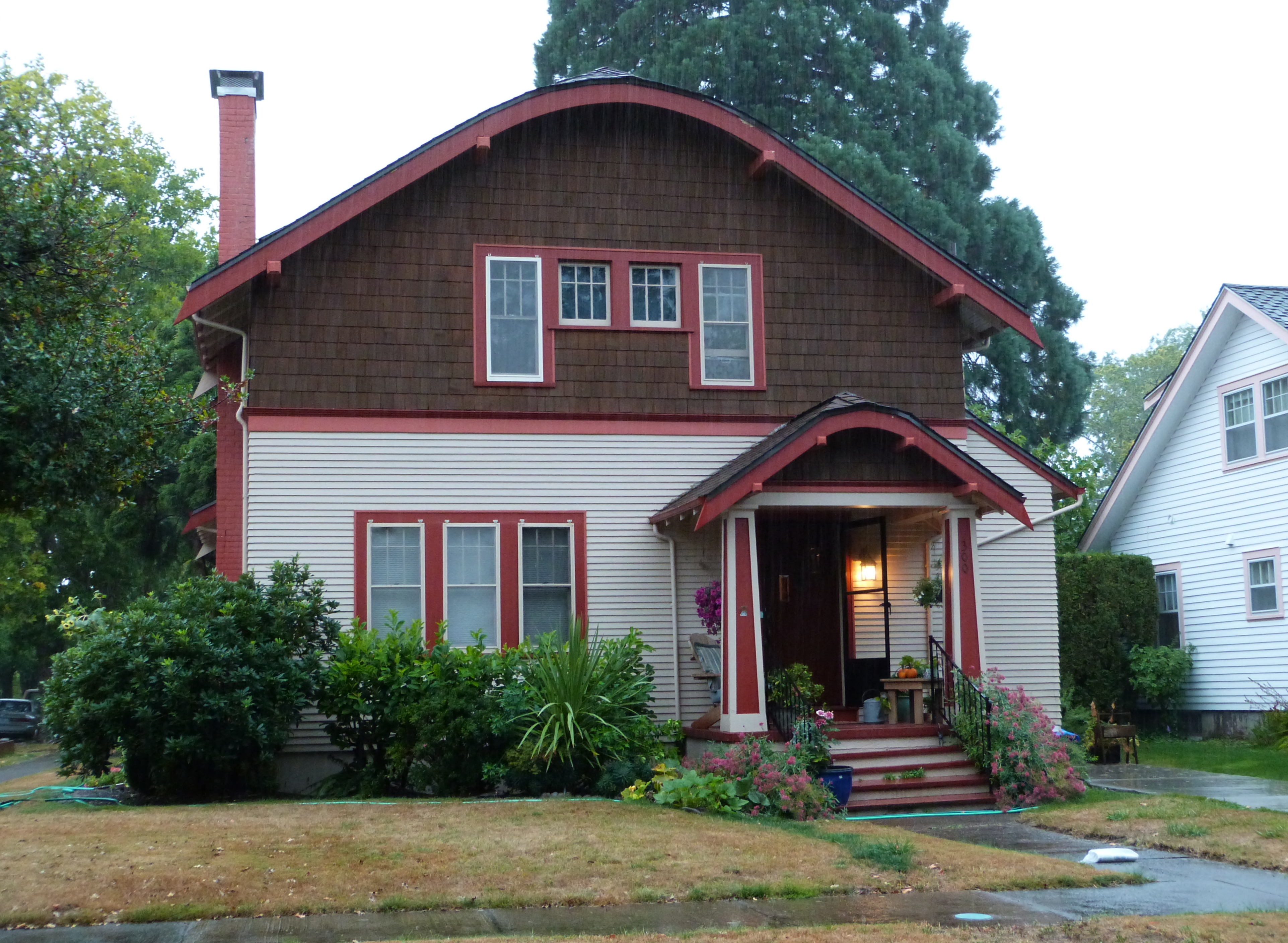 The historic Horace and Nellie Francis House (built ca. 1924), located at 300 Northwest 31st Street in Corvallis, Oregon, United States, is listed as a contributing resource in the College Hill West Historic District. The historic district is listed on the US National Register of Historic Places.